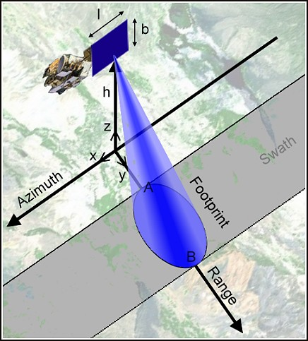 Schematic diagram of Real Aperture Radar, see German article Painter: Anton (2005) This picture replaces Image:Rardiagdrp.png.